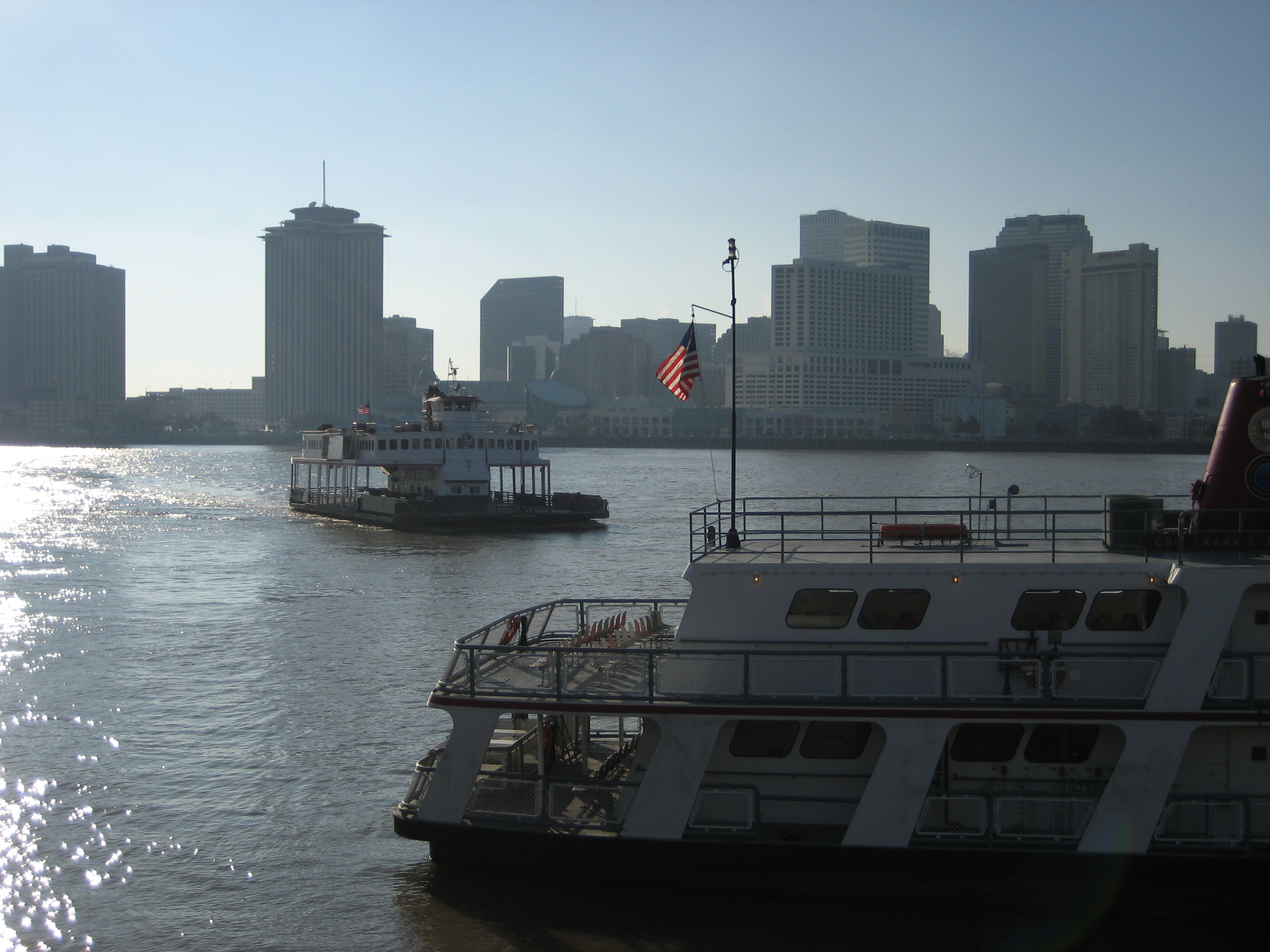 The Algiers/Canal Street Ferry across the Mississippi River, New Orleans. Ferry "Thomas Jefferson" seen approaching the Algiers side. Photo by Infrogmation, January 2007 Other version of photo (contrast brightened): File:AlgiersFerry TJefferson arriving3 bright.jpg